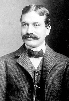 Photograph of Frederick J Osterling (1890s)